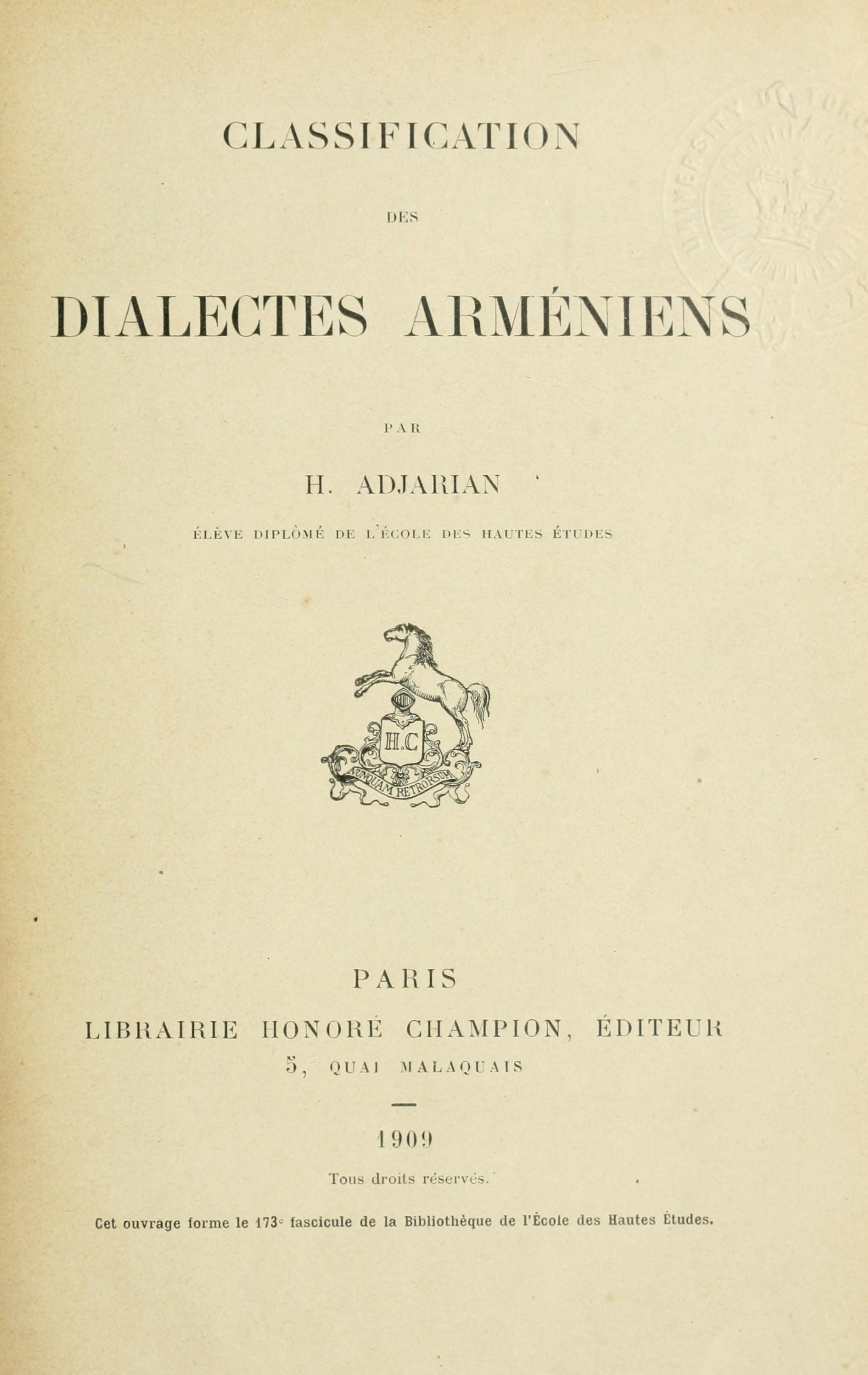 Classification des dialectes arméniens first page